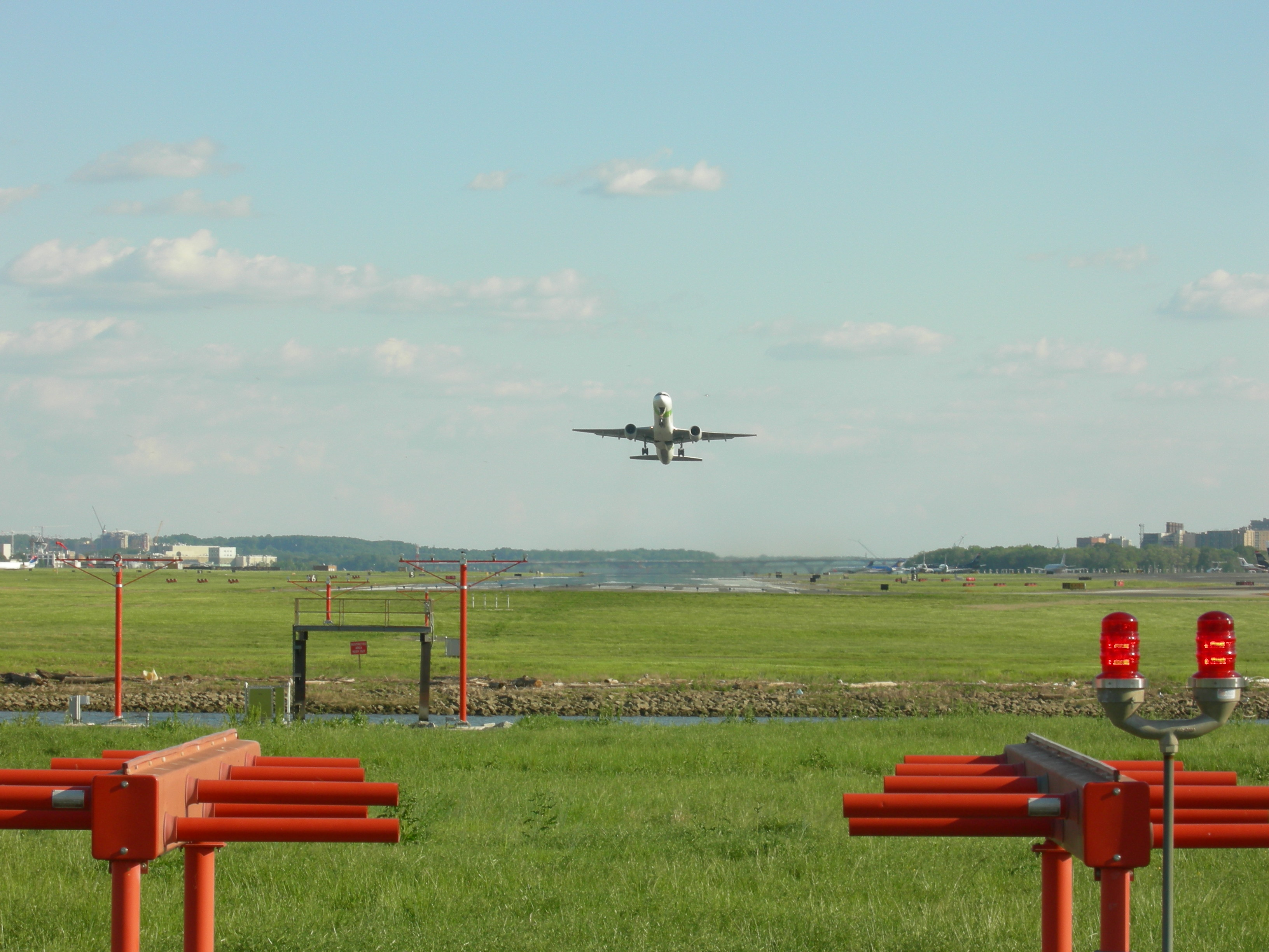 A Delta Boeing 757-200 taking off Ronald Reagan Washington National Airport runway 19. It is painted with the Song livery, a Delta subsidiary which was discontinued in 2006. The photo was taken from Gravelly Point just north of the airport.